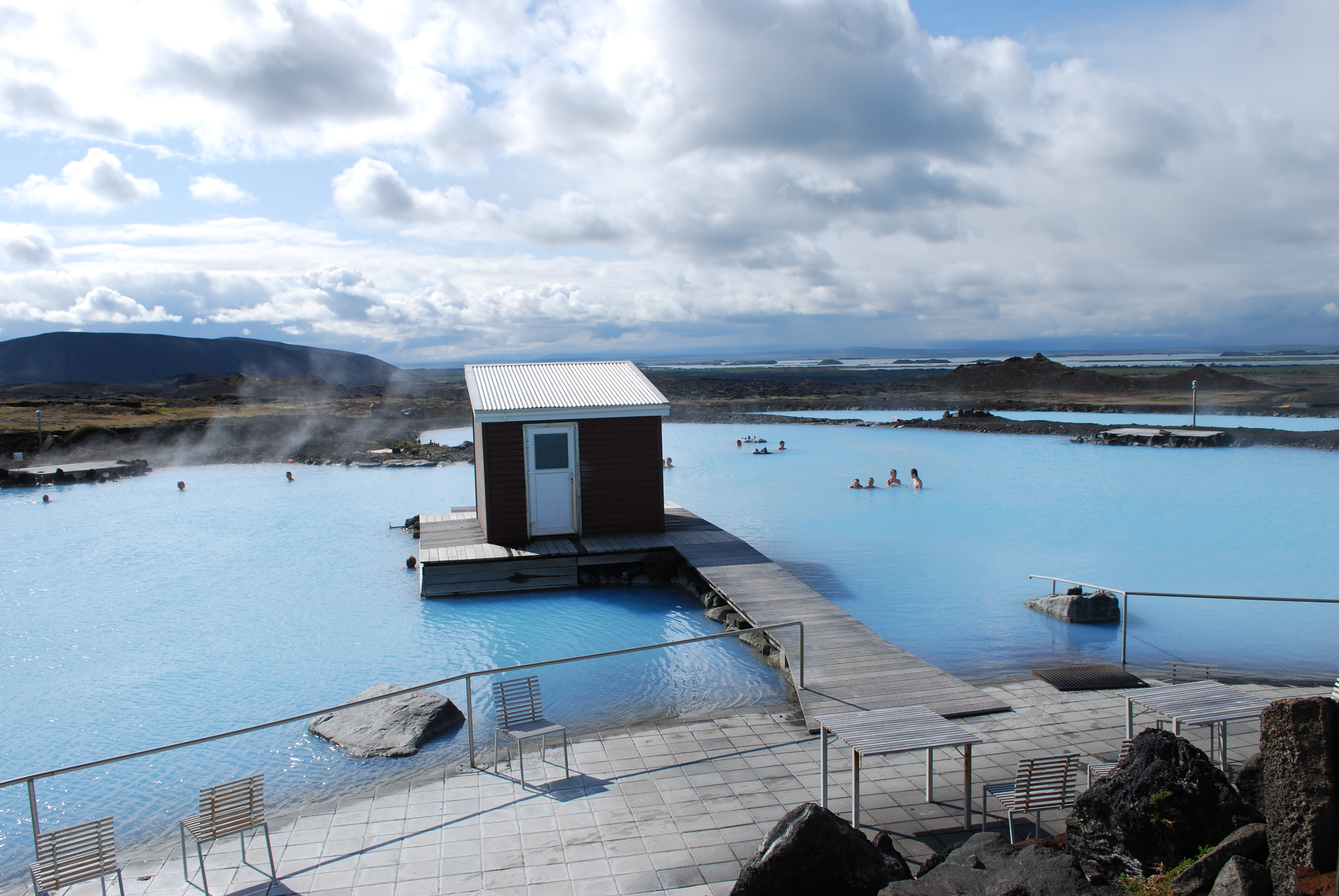 Blue Lagoon in Mývatn region called Jarðböðin við Mývatn, Iceland - Google Maps - Google Earth